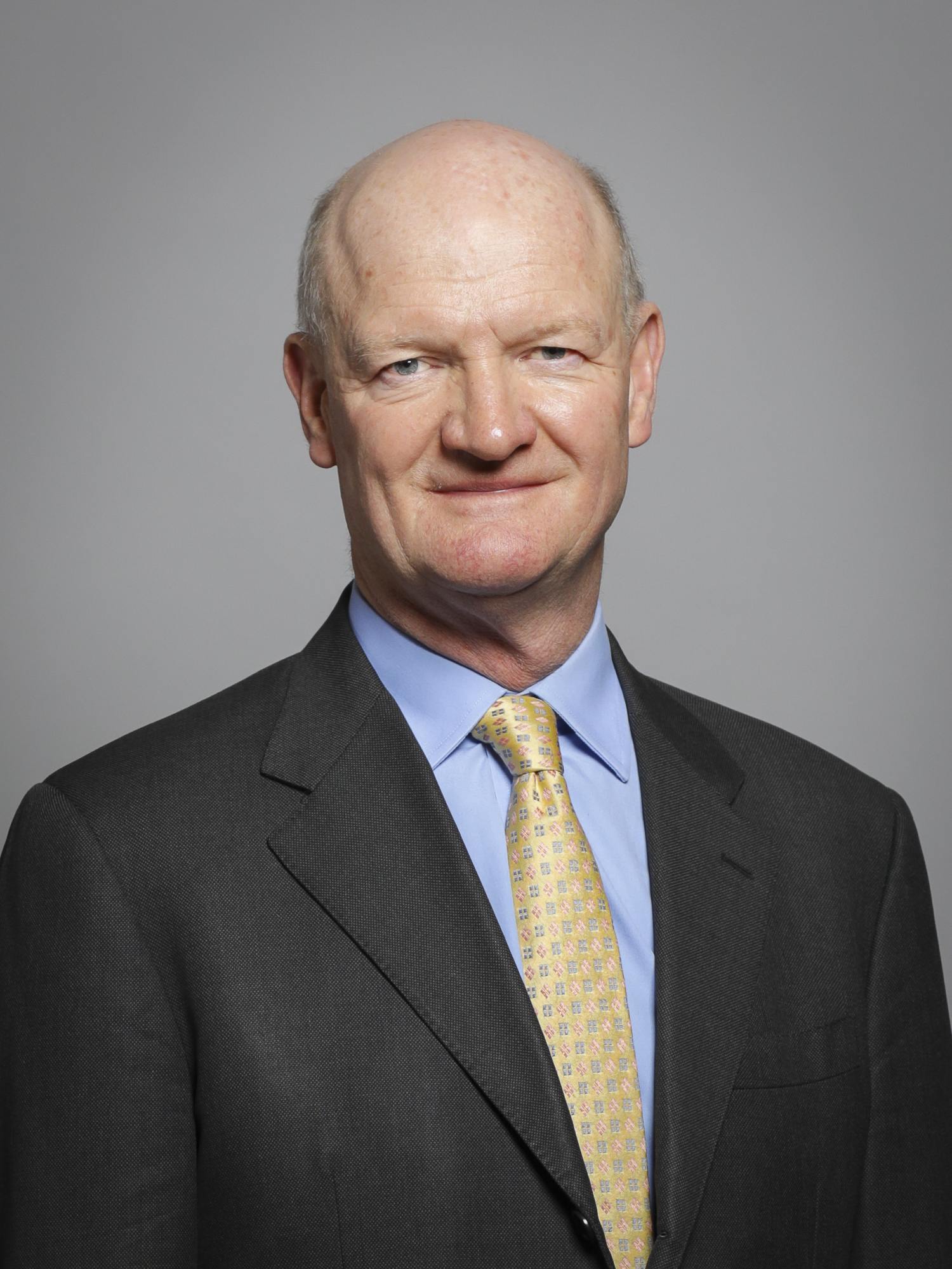 Official portrait of Lord Willetts 3×4 portrait of Lord Willetts